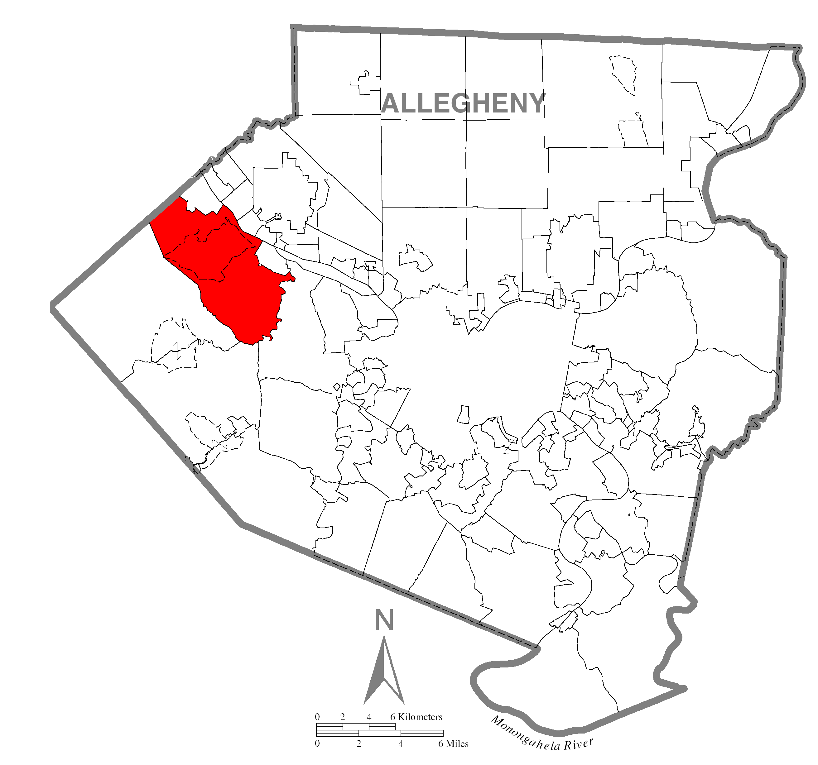 A map of Allegheny County showing Moon Township, Pennsylvania (alternate) highlighted on the map.